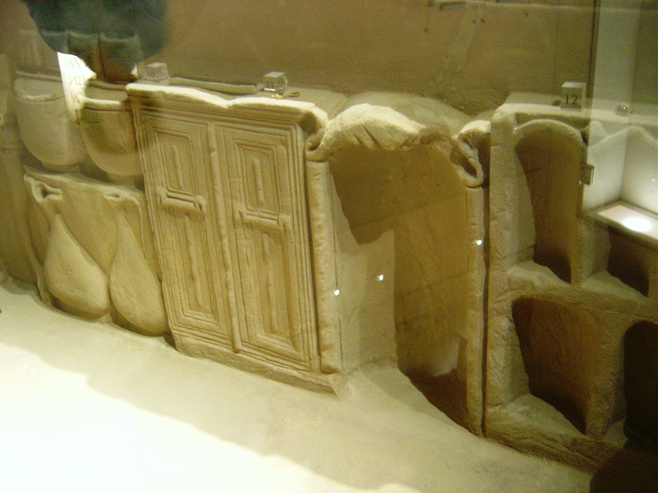 inside the sarcofague of Simpelveld, the house interior of the burried lady